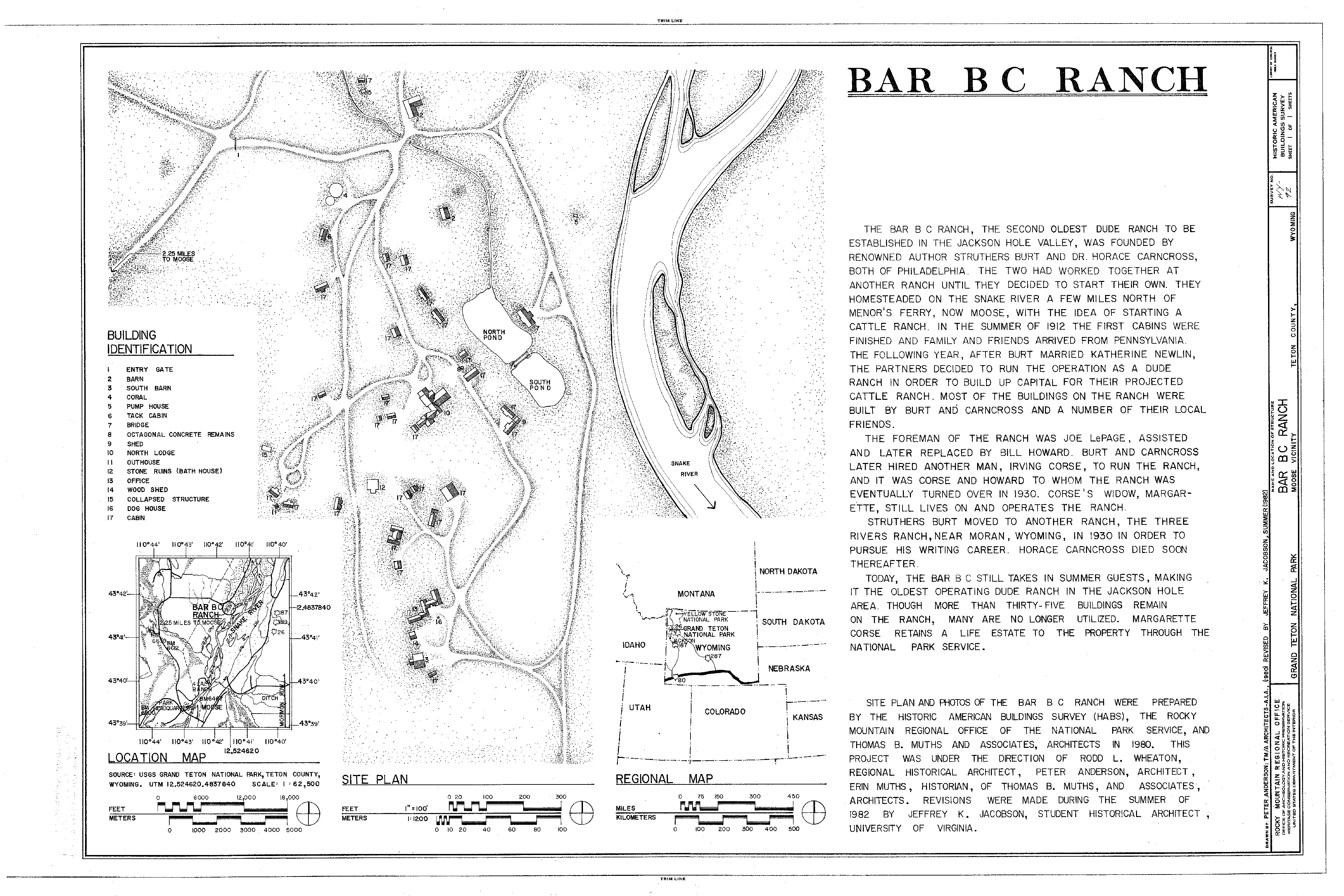 Plan of the Bar B C Dude Ranch — by the Historic American Buildings Survey—HABS. Located near Moose, Jackson Hole, Grand Teton National Park — Wyoming. Image courtesy of Historic American Buildings Survey—HABS.